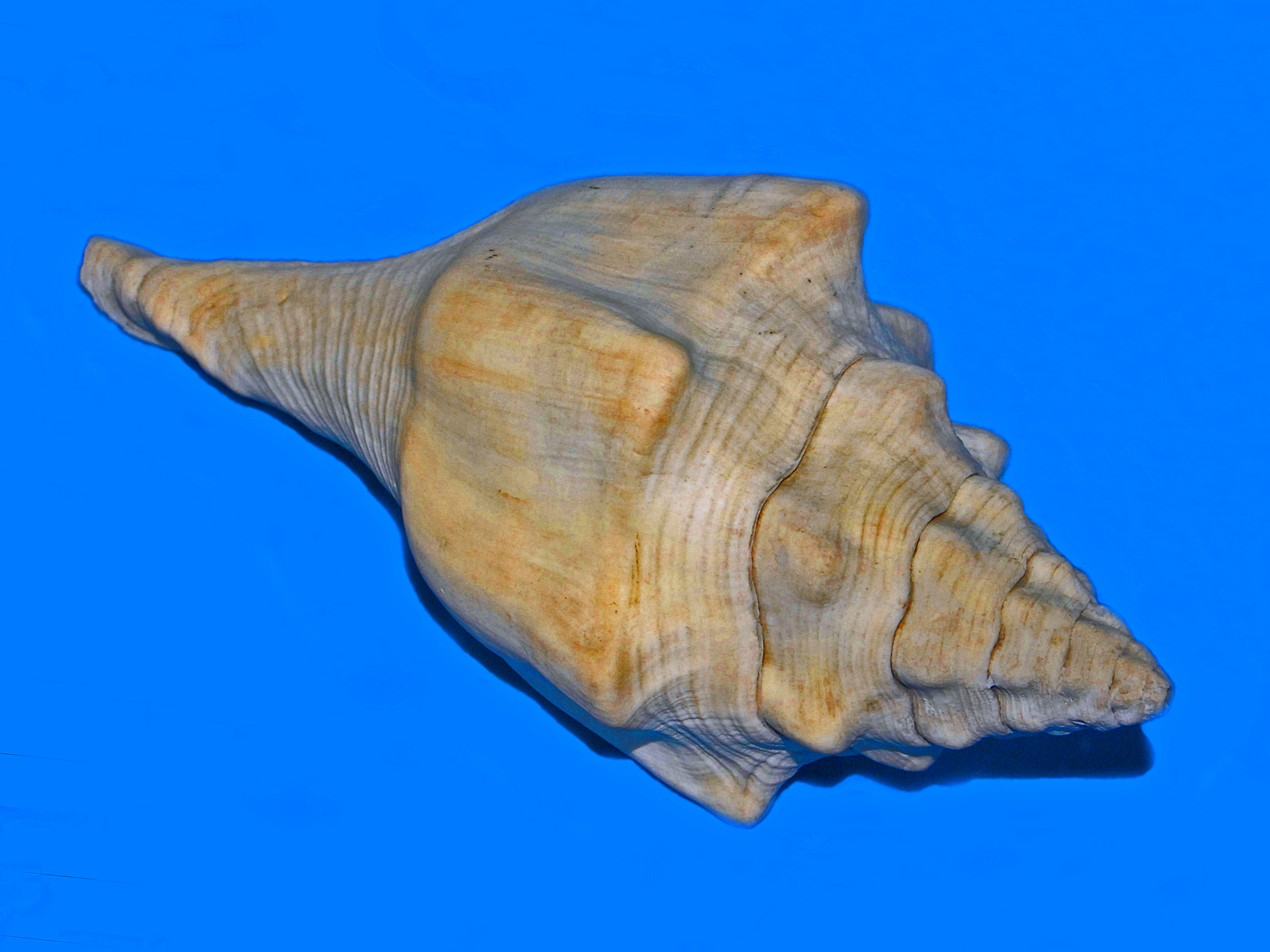 A shell of Turbinella angulata on display at the Museo Civico di Storia Naturale di Milano